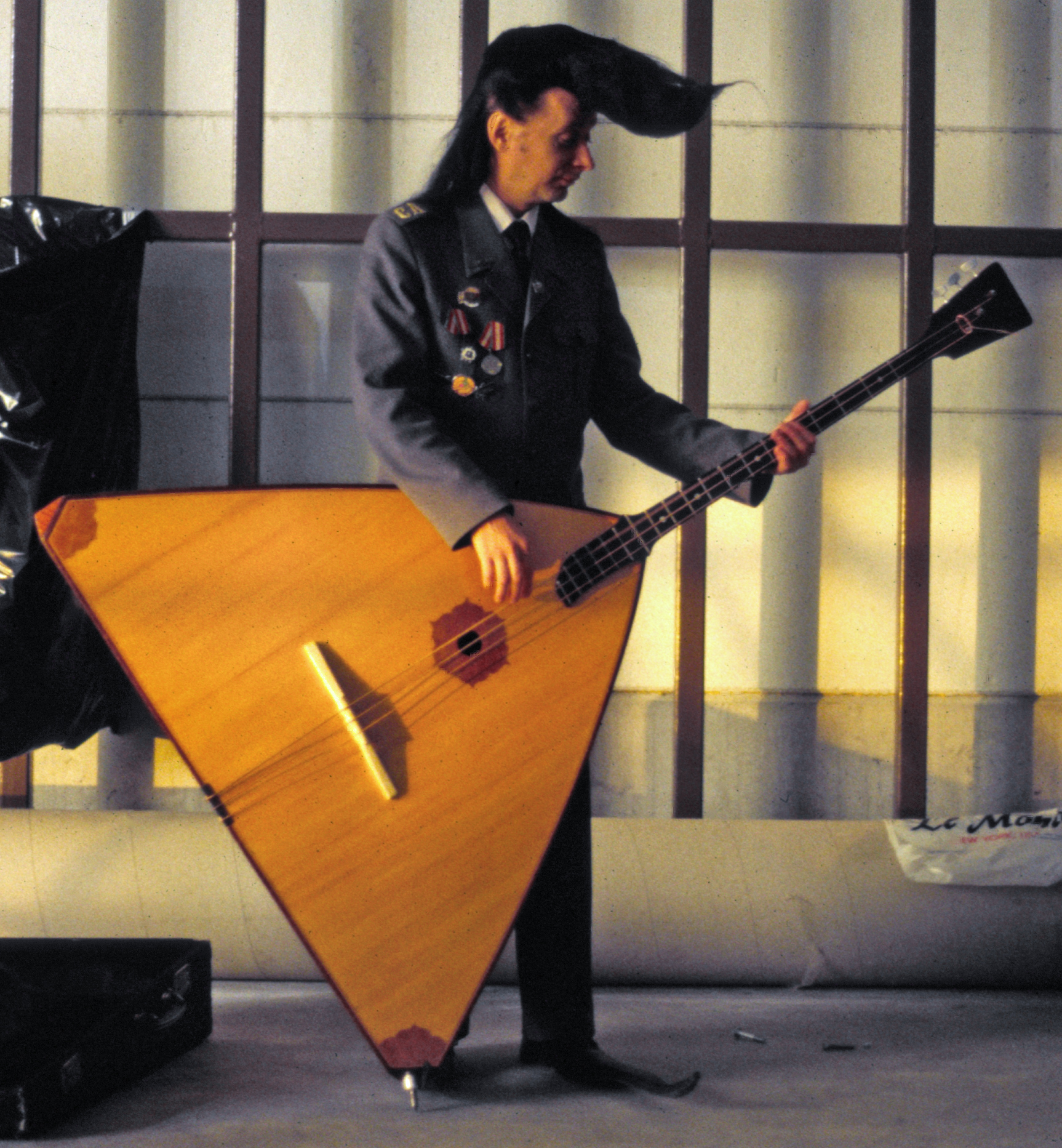 Silu Seppälä of Leningrad Cowboys, playing bass balalaika, 1995.